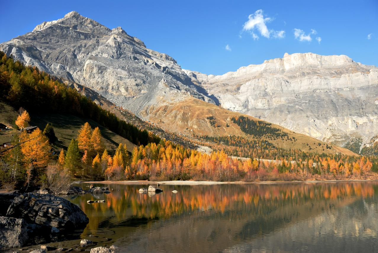 Diablerets and Quille du Diable (right) from Derborence